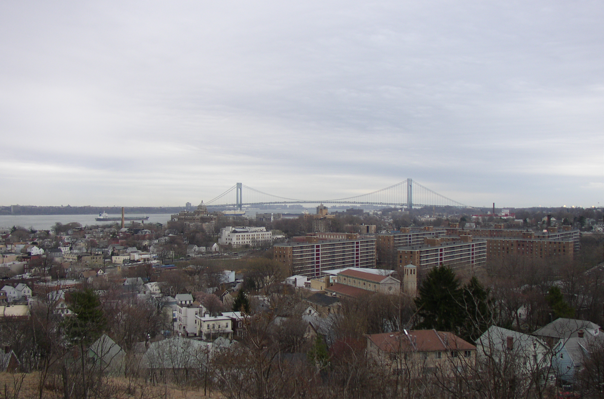 View over Clifton from N 40° 37.531 W 074° 05.132 with the Verrazano-Narrows Bridge in background